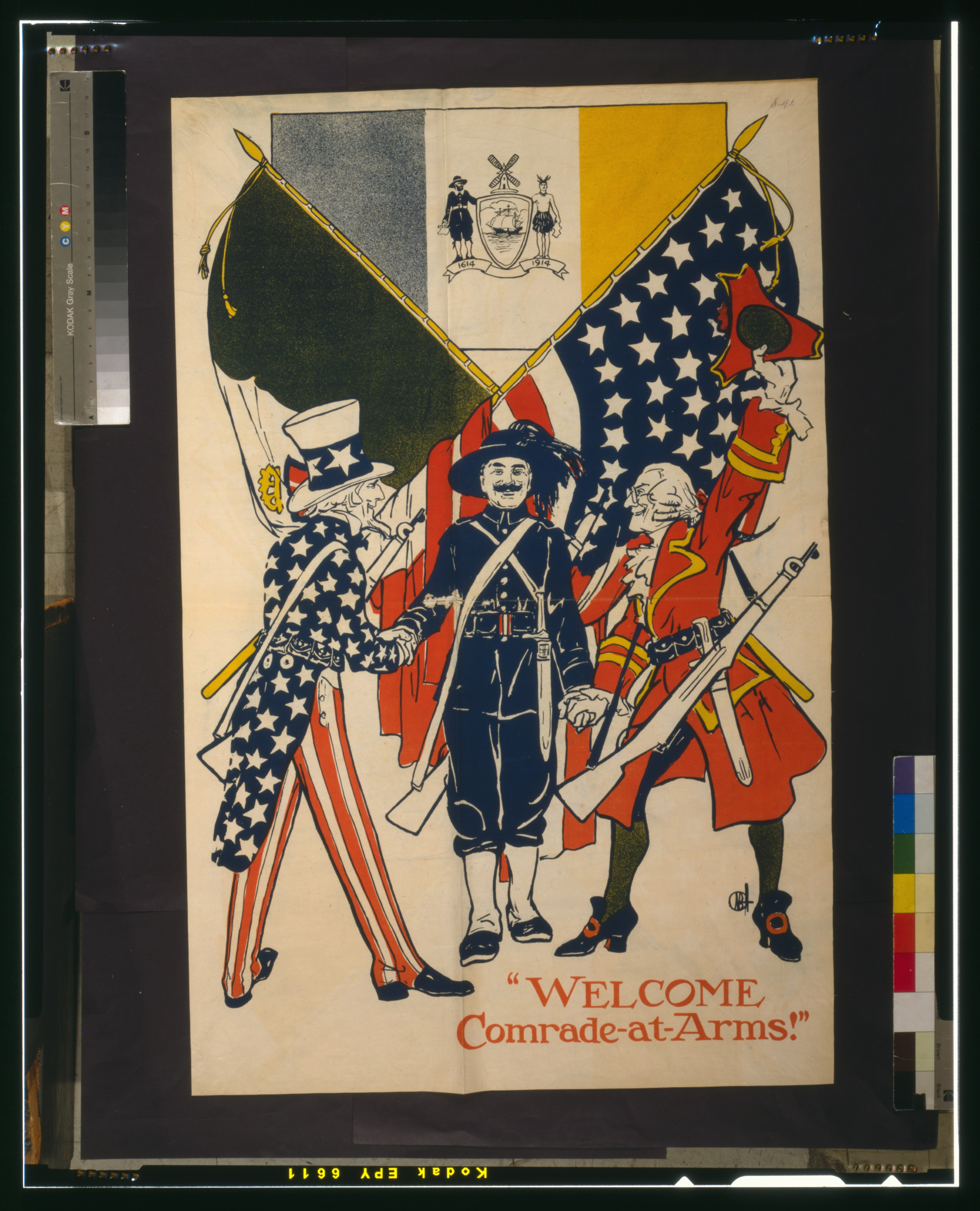 Title: "Welcome comrade-at-arms!" Abstract: Poster showing Uncle Sam and Father Knickerbocker greeting a Bersagliere in a plumed hat; all three men bear rifles and swords. In the background, an American and Italian flag are crossed, with a flag similar to New York City's displaying between them. Possibly the city's tercentennary flag because it has the dates 1614 to1914 on it. (Note: The inner band of the flag was incorrectly colored black instead of red. It's intended to be the Italian flag, both because of the arms in the white pale and the context of the poster. Source: Peter Ansoff and David Martucci, 2012) Physical description: 1 print (poster) : lithograph, color ; 100 x 64 cm. Notes: Monogram unidentified.; Forms part of: Willard and Dorothy Straight Collection.